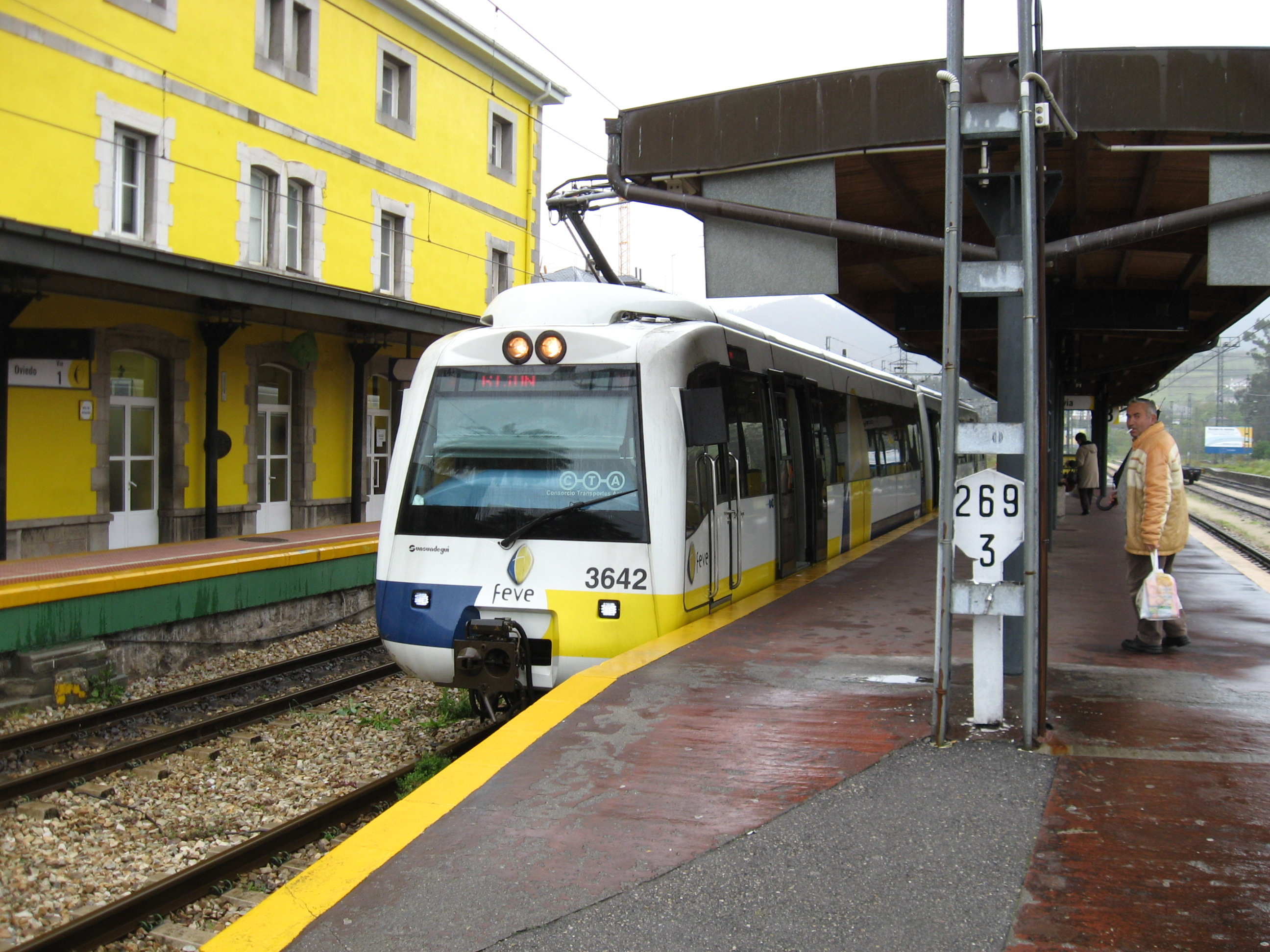 FEVE train for Gijón waiting in Pravia (Asturias) for connecting train.